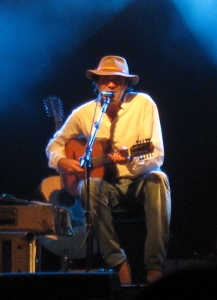 Almir Sater, a Brazilian folk music singer, performing at Santa Fé Tênis Clube, on November 12th 2011.